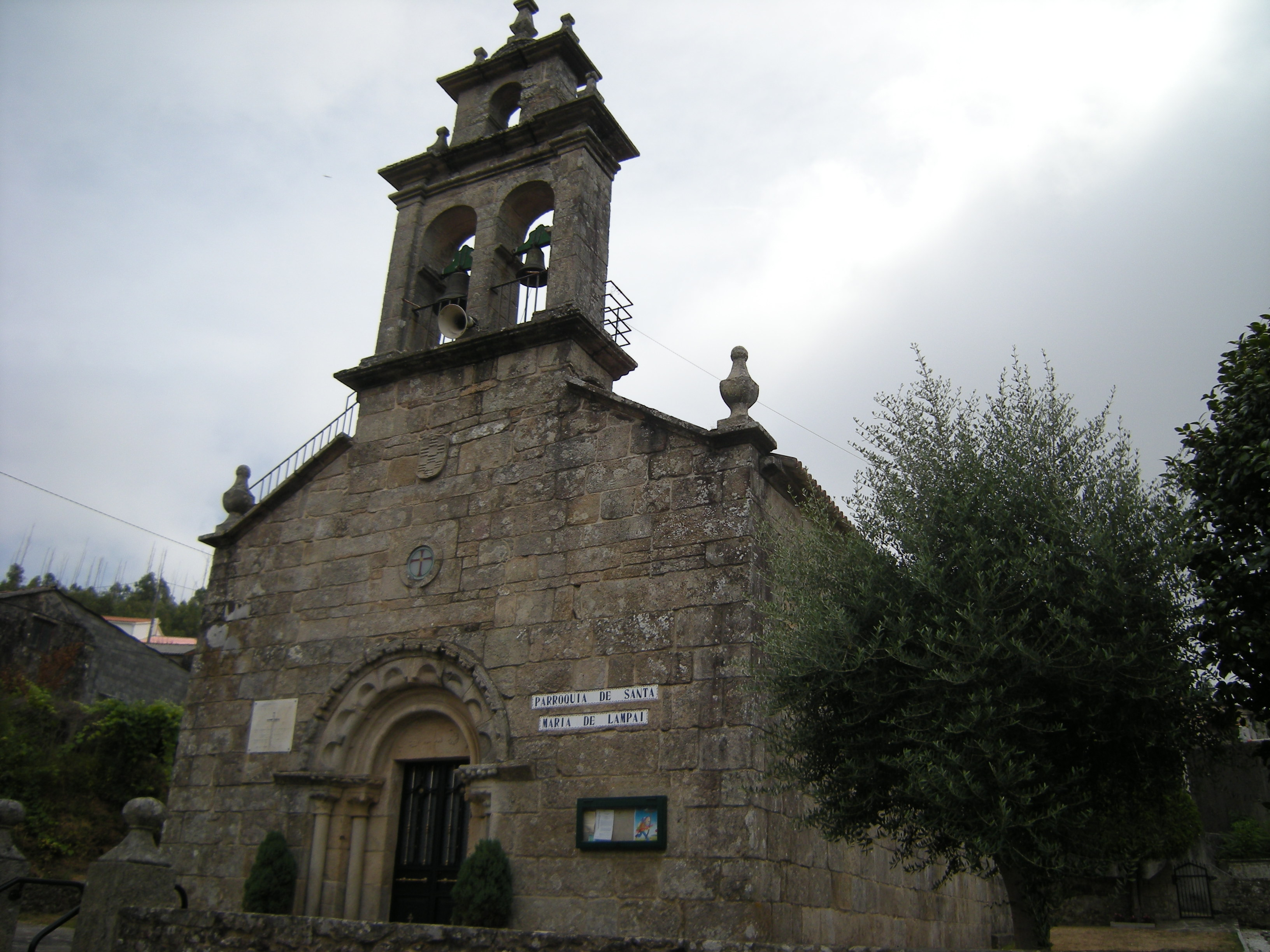 Saint Mary of Lampai Church, Teo, A Coruña, Galicia, Spain